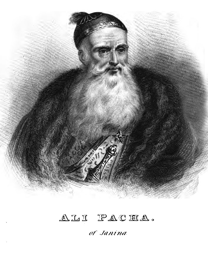 Portrait of Ali Pasha